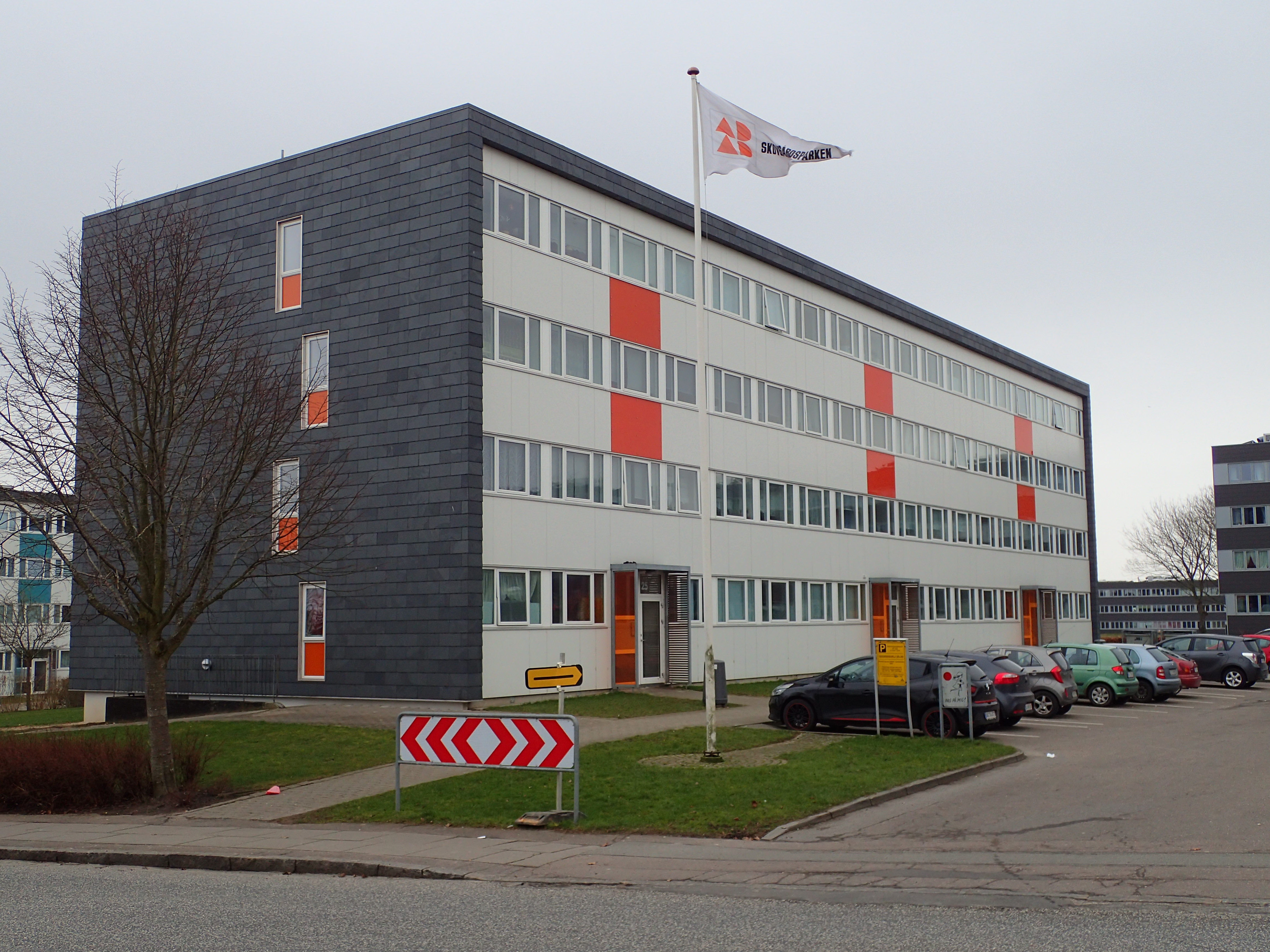 Skovgårdsparken